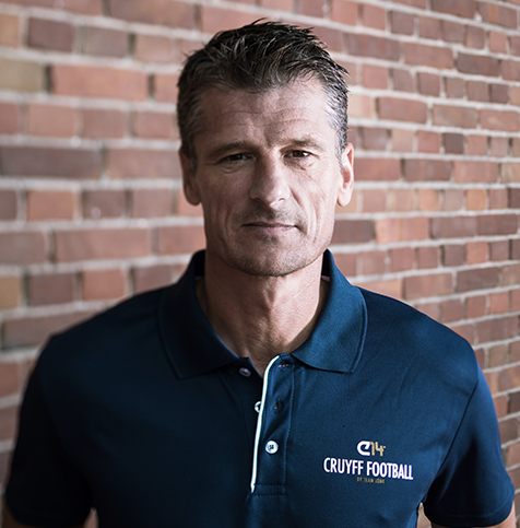 wim jonk in cruyff football portrait